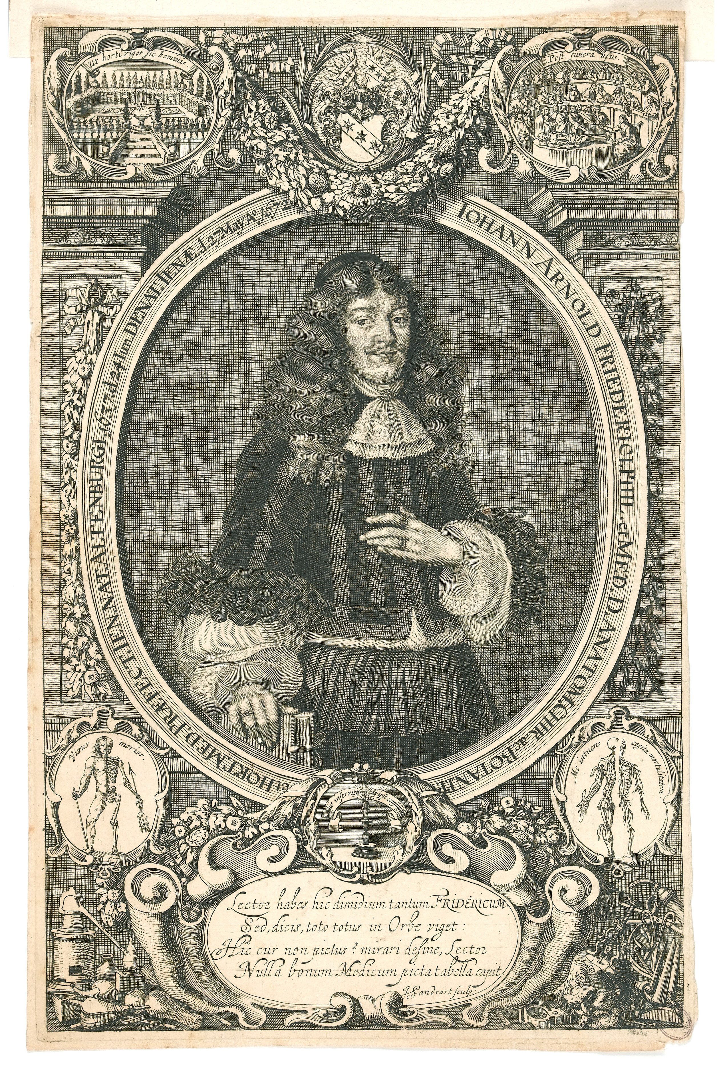 Johann Arnold Friederici. Line engraving by Jacob von Sandrart (without mount). Iconographic Collections Keywords: Johann Arnold Friederici; Jakob von Sandrart